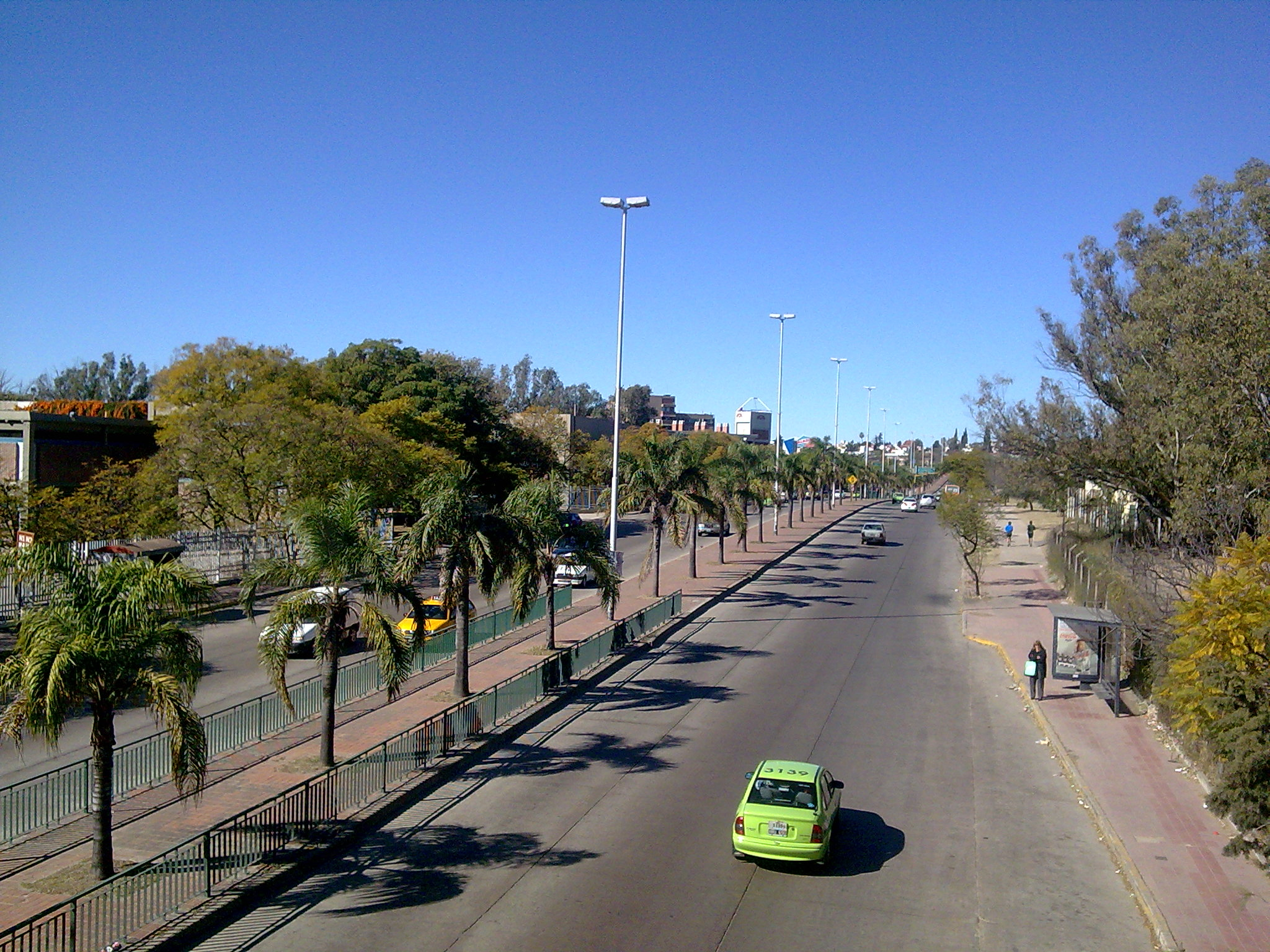 View to the southeast of Amadeo Sabattini avenue. Cordoba, Argentina.